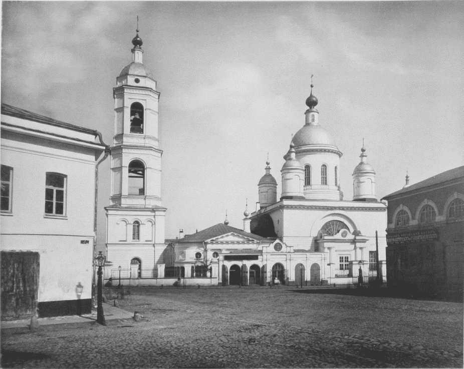 Church of Saint Sergius in Rogozhskaya Sloboda (Moscow)